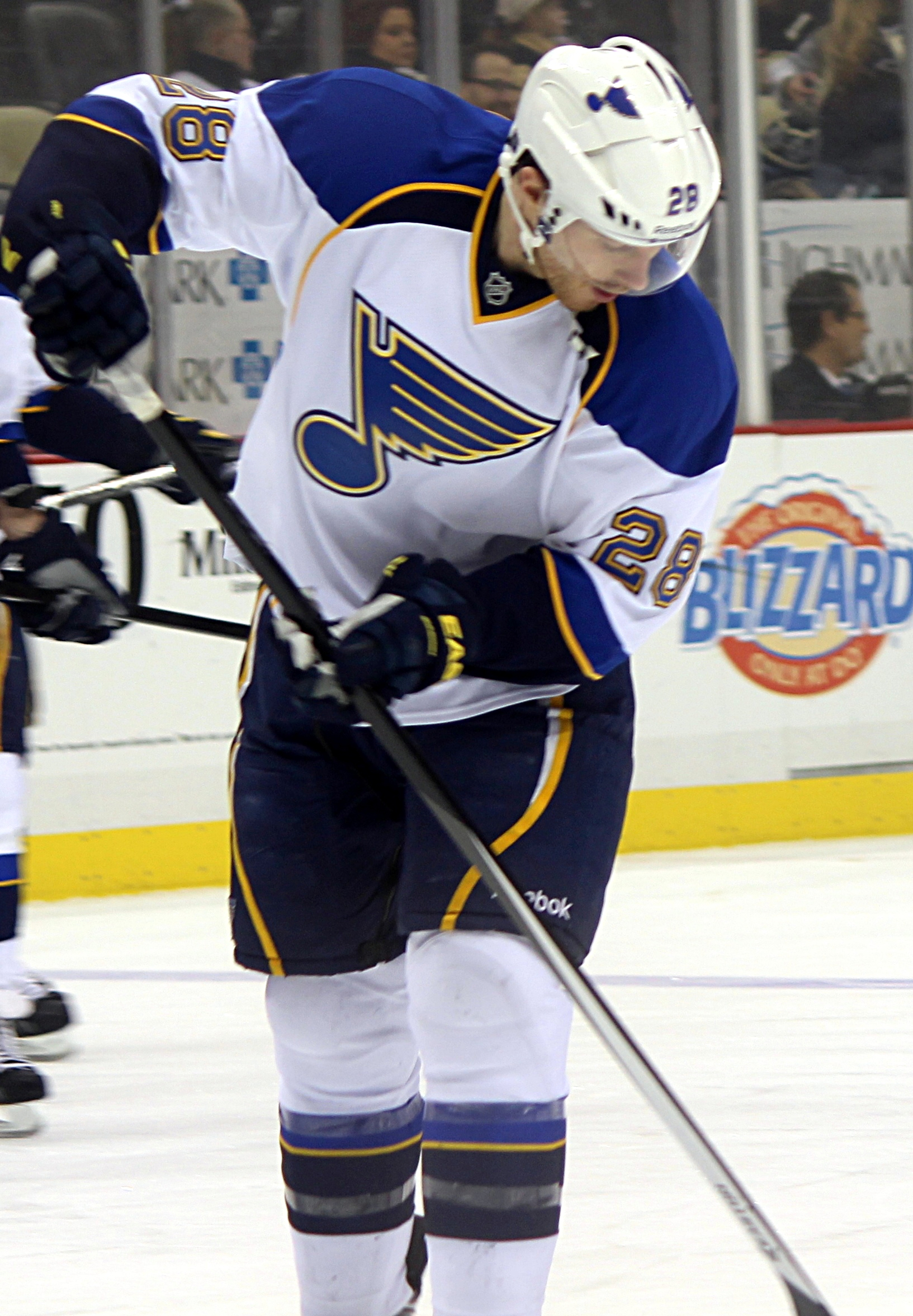 St. Louis Blues defenseman Ian Cole during a game against the Pittsburgh Penguins, March 23, 2014, at Consol Energy Center in Pittsburgh, PA.